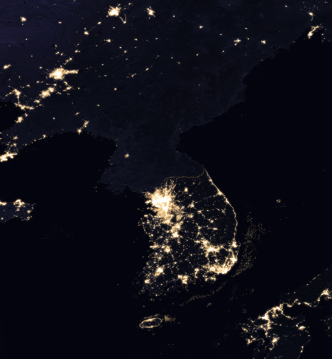 View of Korean Peninsula at night from space; note the contrast between North Korea and South Korea in terms of lighting, with the only major point in the North having substantial light being Pyongyang, the nation's capitol. Image is derived from a larger composite image of the globe at nighttime compiled by NASA.